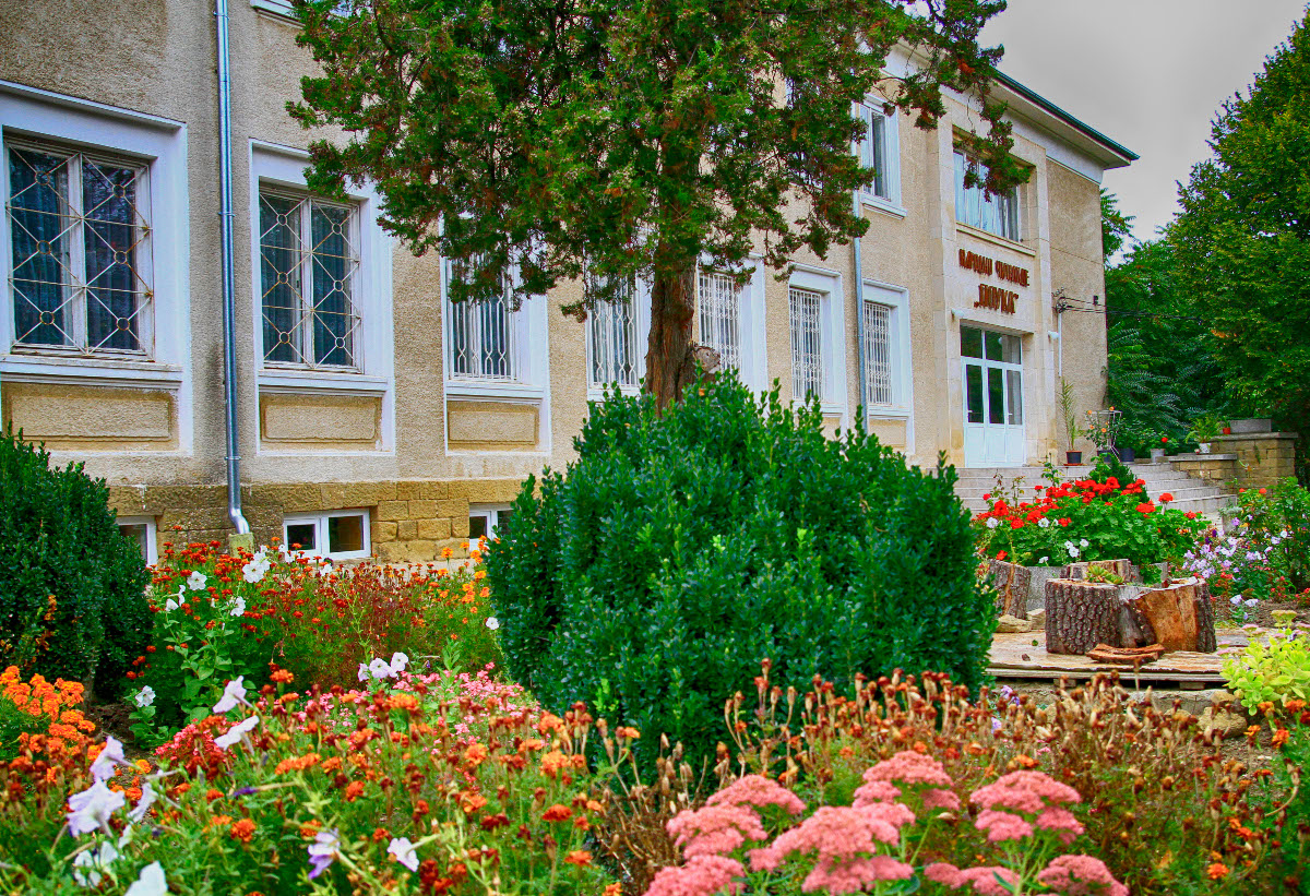 Chitalishte (cultural club) Pouka in Goritsa, Pomorie municipality